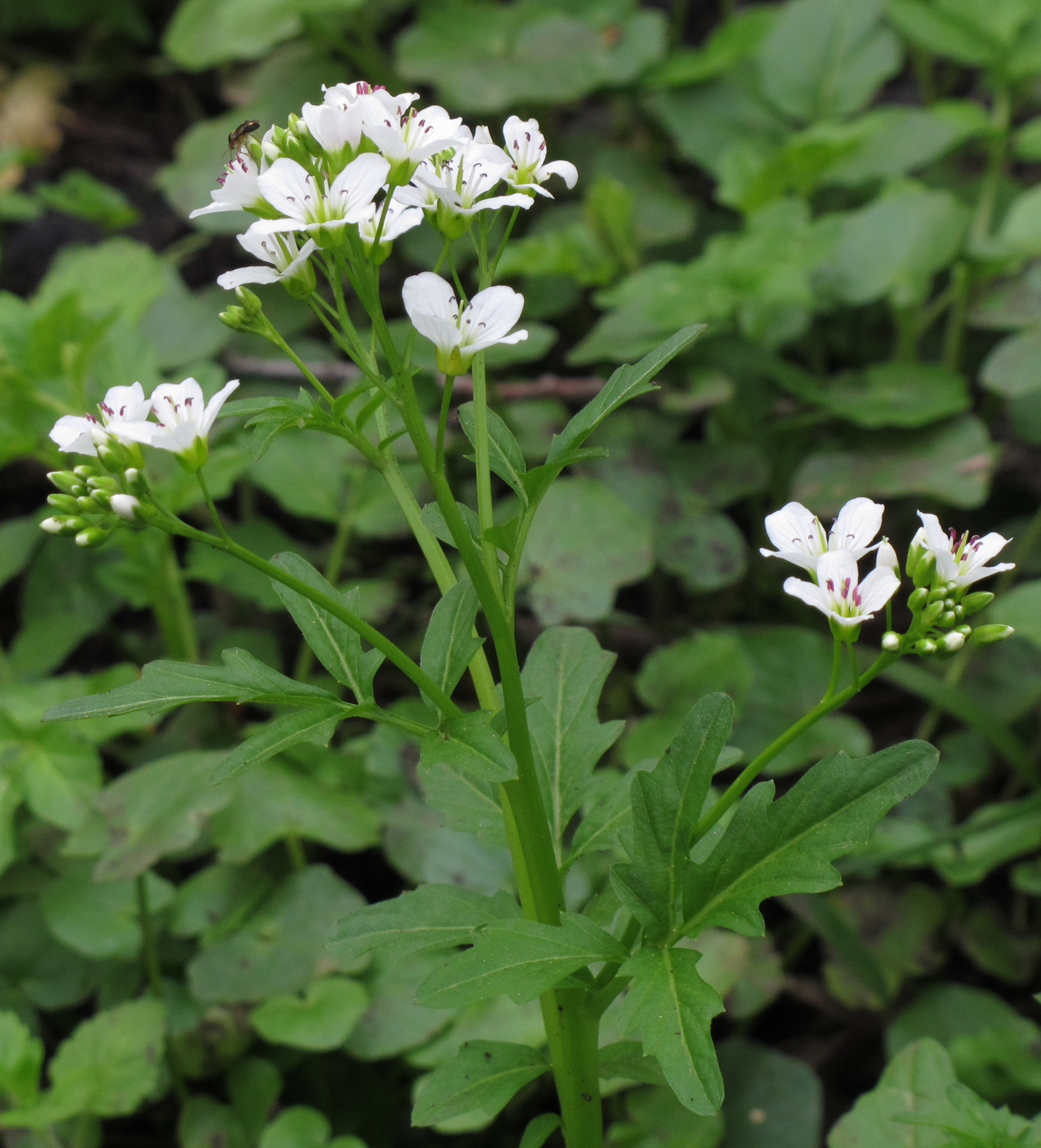 Large bitter-cress (Cardamine amara), municipal forest of Frankfurt/Main near Oberschweinstiege, Germany